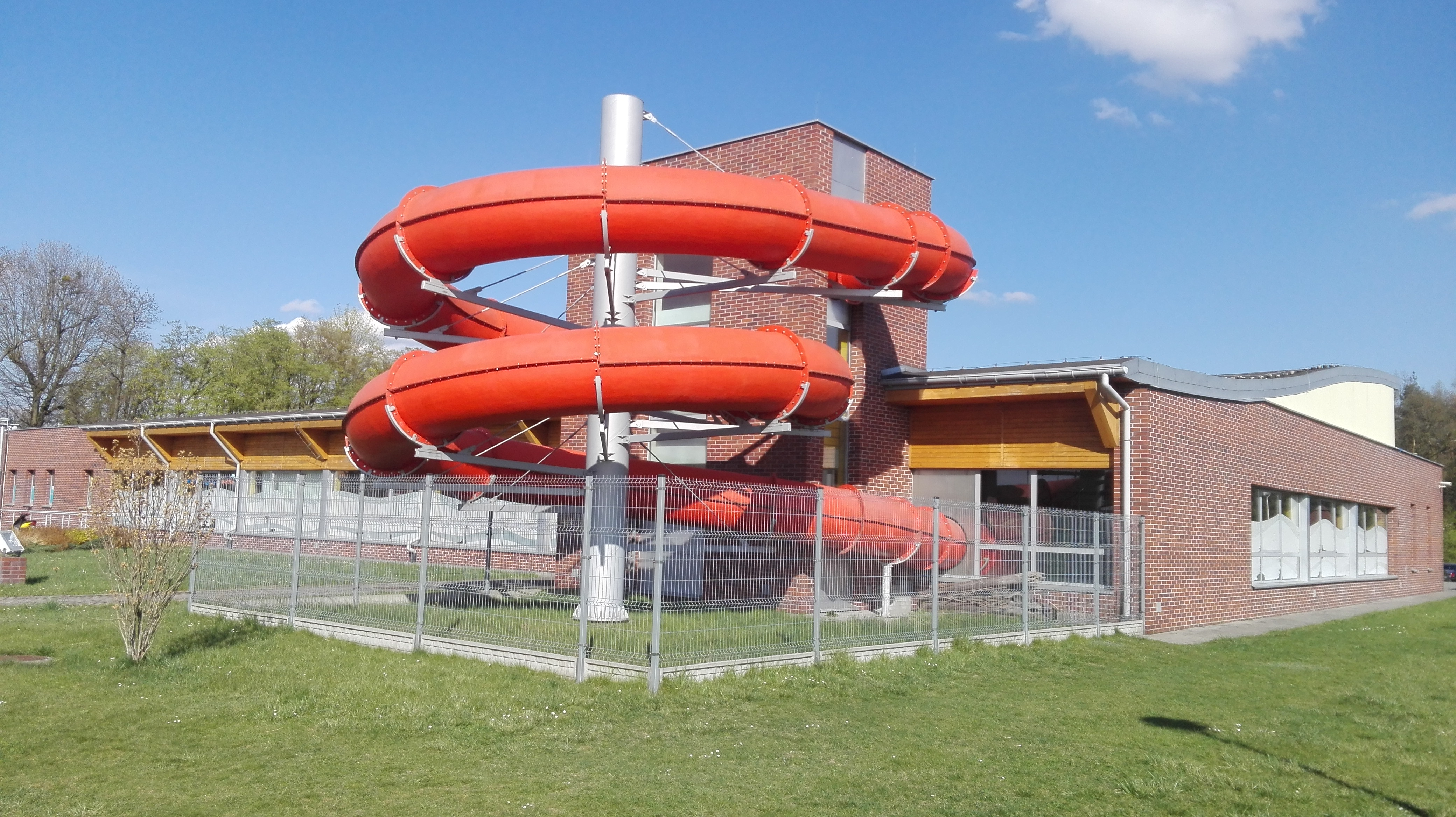 2 Wrzosów Street in Krapkowice